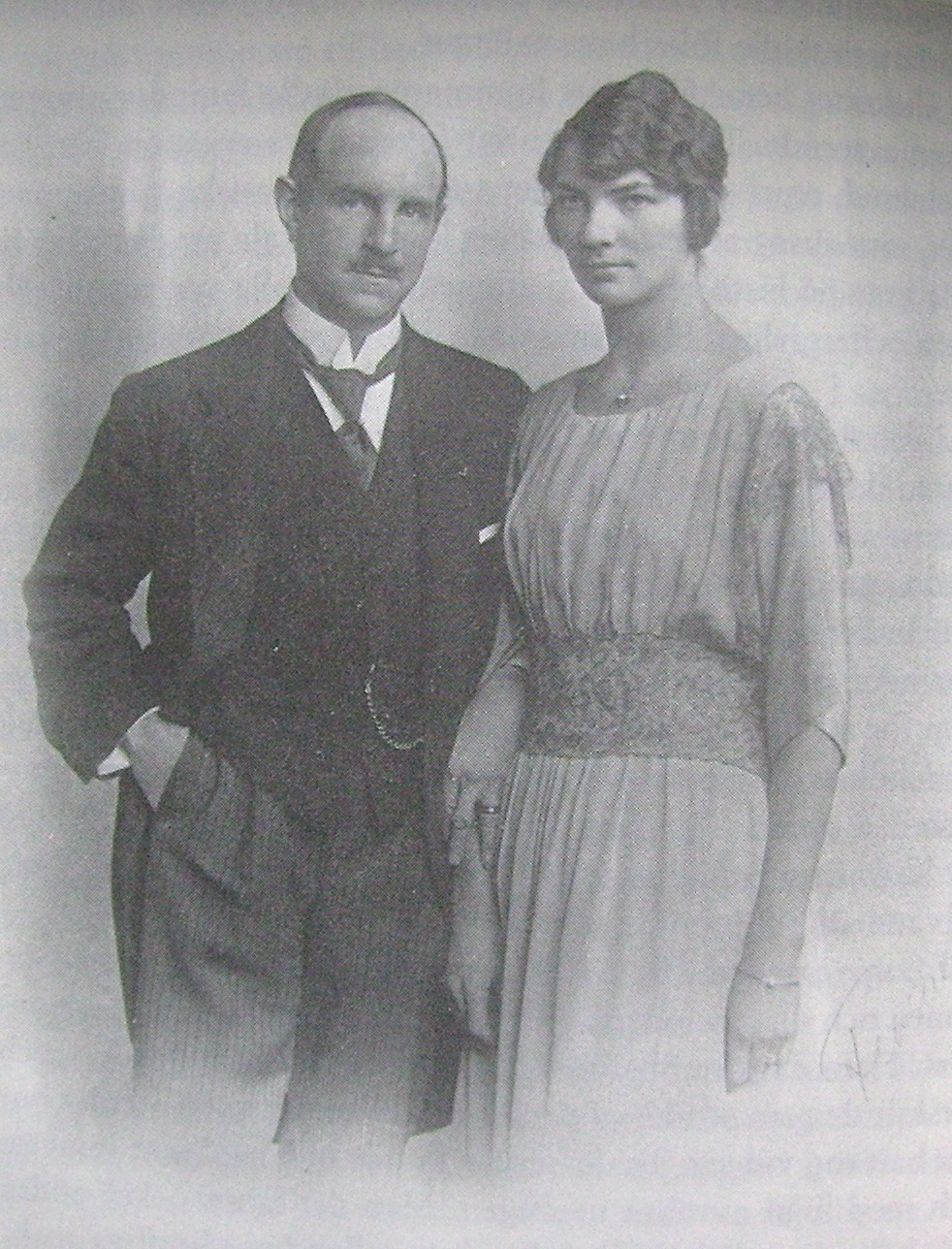 Picture of Carl Grimberg and Eva Sparre on their engagement day 1918